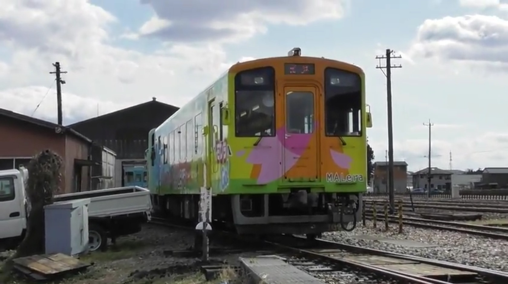 Two Haimo 330 diesel cars on a test run at Motosu Station